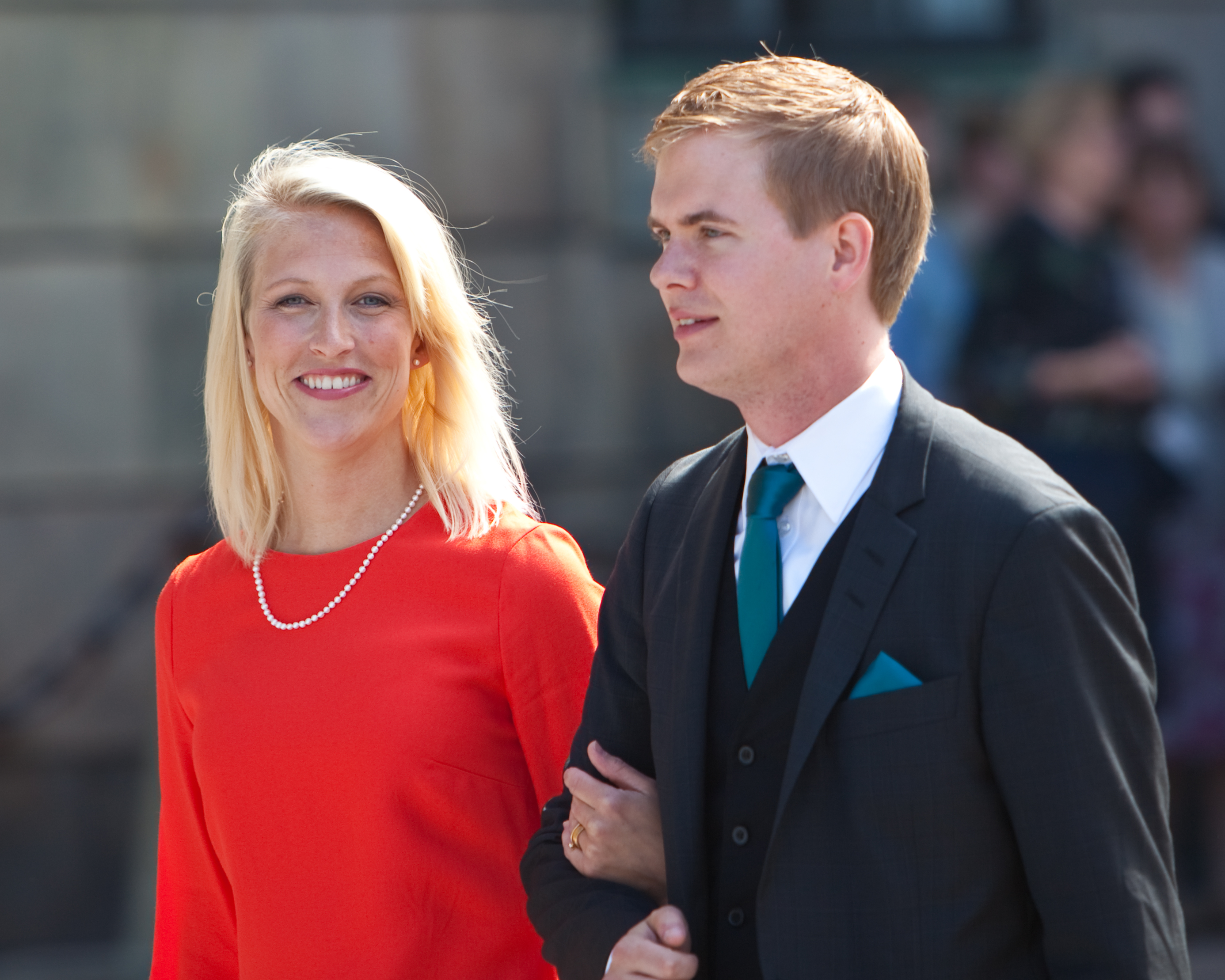 Gustav Fridolin, spokesperson for the Swedish Green Party, with wife, at Princess Estelle's baptism in Stockholm Sweden May 2012